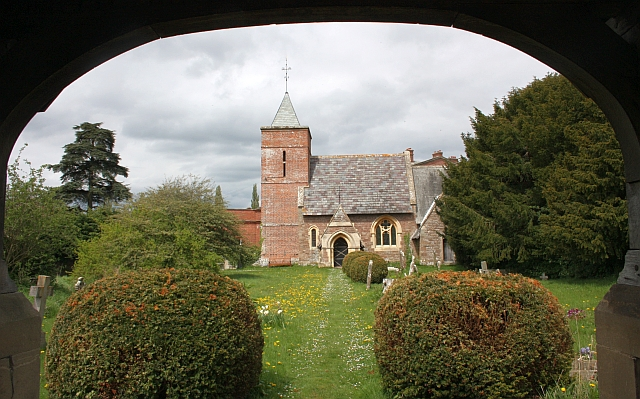 St James' parish church, Canon Frome, Herefordshire, seen from the south. The tower was built around 1680 when the church was rebuilt after the Civil War. The rest of the church was designed by GF Bodley and built in 1860.